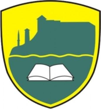 Coat of arms